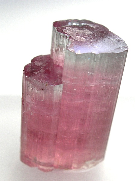 Tourmaline Locality: Tourmaline Queen Mine (MS 6458; Tourmaline Queen No. 3), Tourmaline Queen Mountain (Pala; Queen), Pala District, San Diego County, California, USA (Locality at ) Classic oldstyle Queen colors! Nice! 1.9 x 1.1 x 1 cm